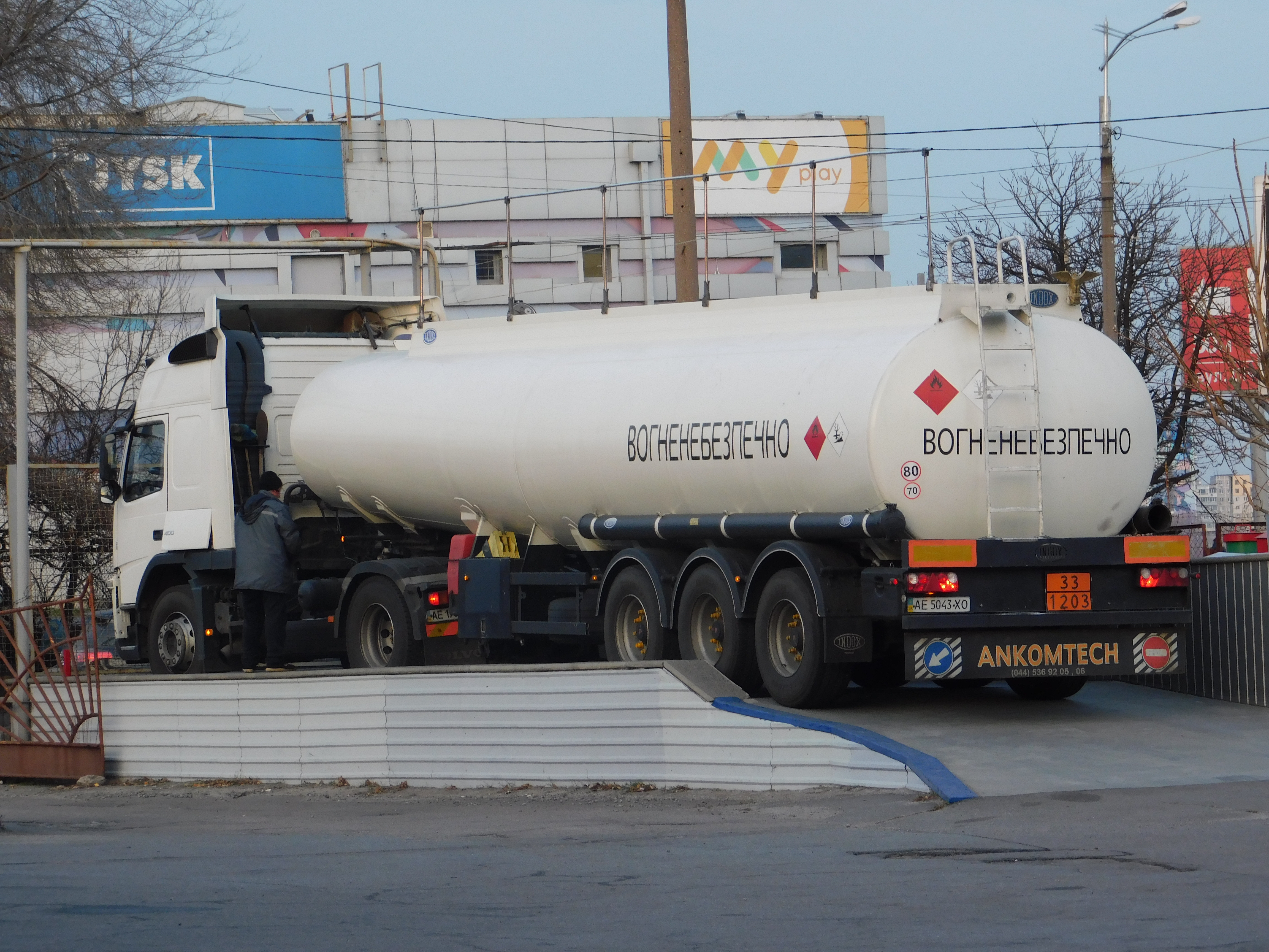 View of articulated petrol truck registered AE 5043 XO from the back